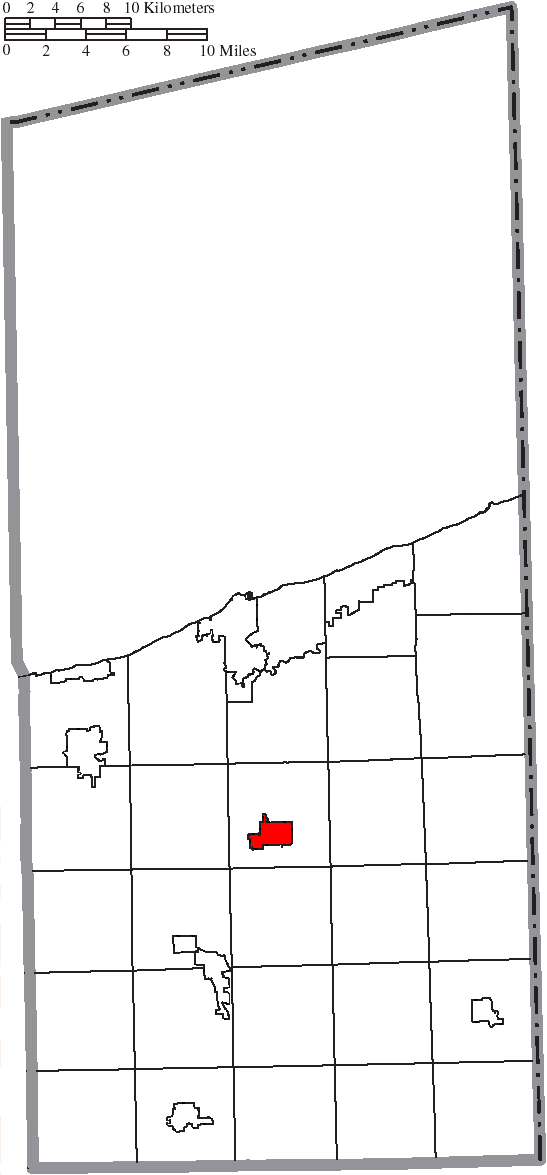 Map of the municipal and township boundaries of Ashtabula County, Ohio, United States, as of the 2000 census, with the location of the village of Jefferson highlighted. Township borders are shown only in unincorporated areas in order to differentiate incorporated and unincorporated areas more clearly.